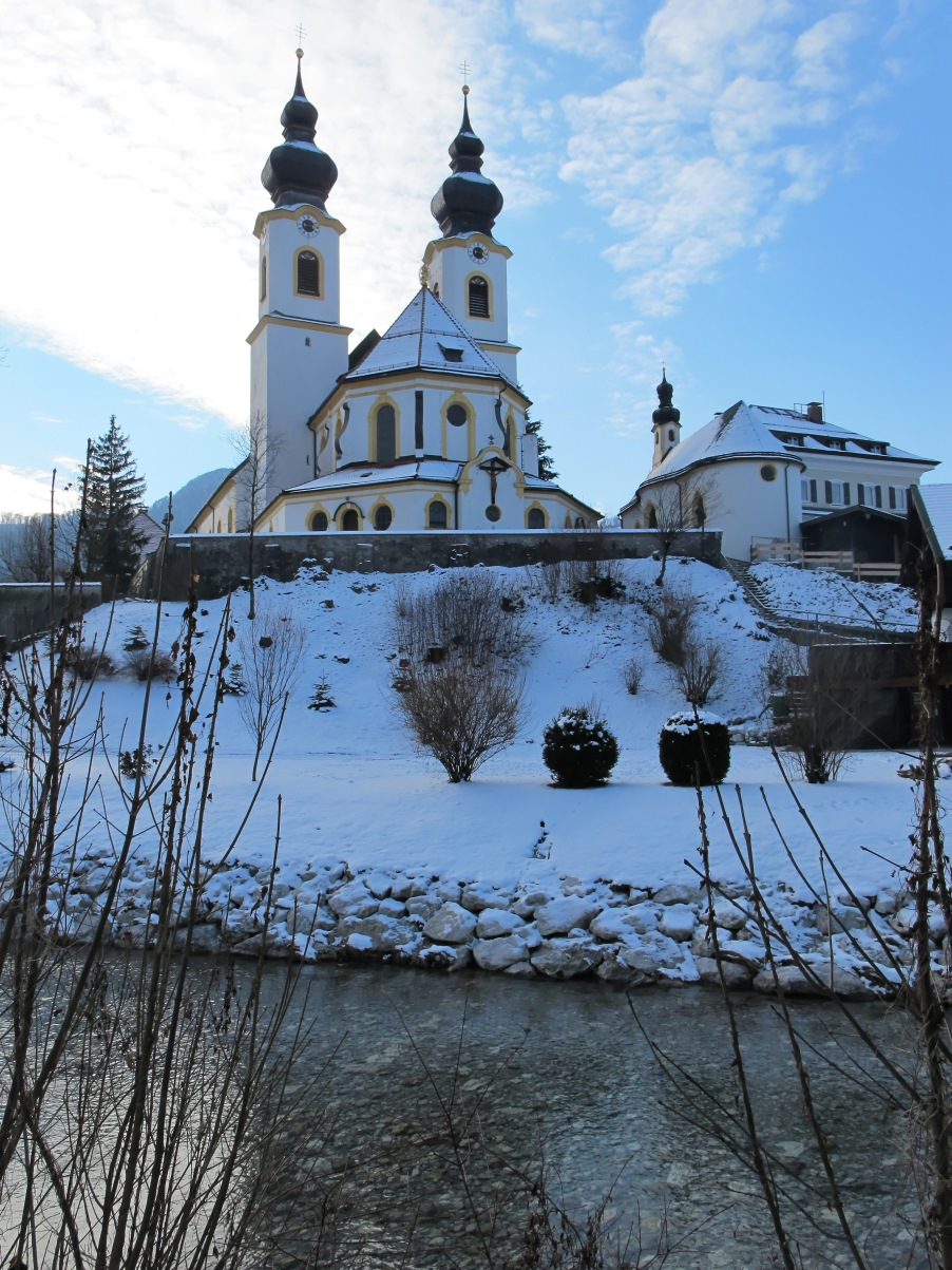 Village "Aschau im Chiemgau", Parish Church